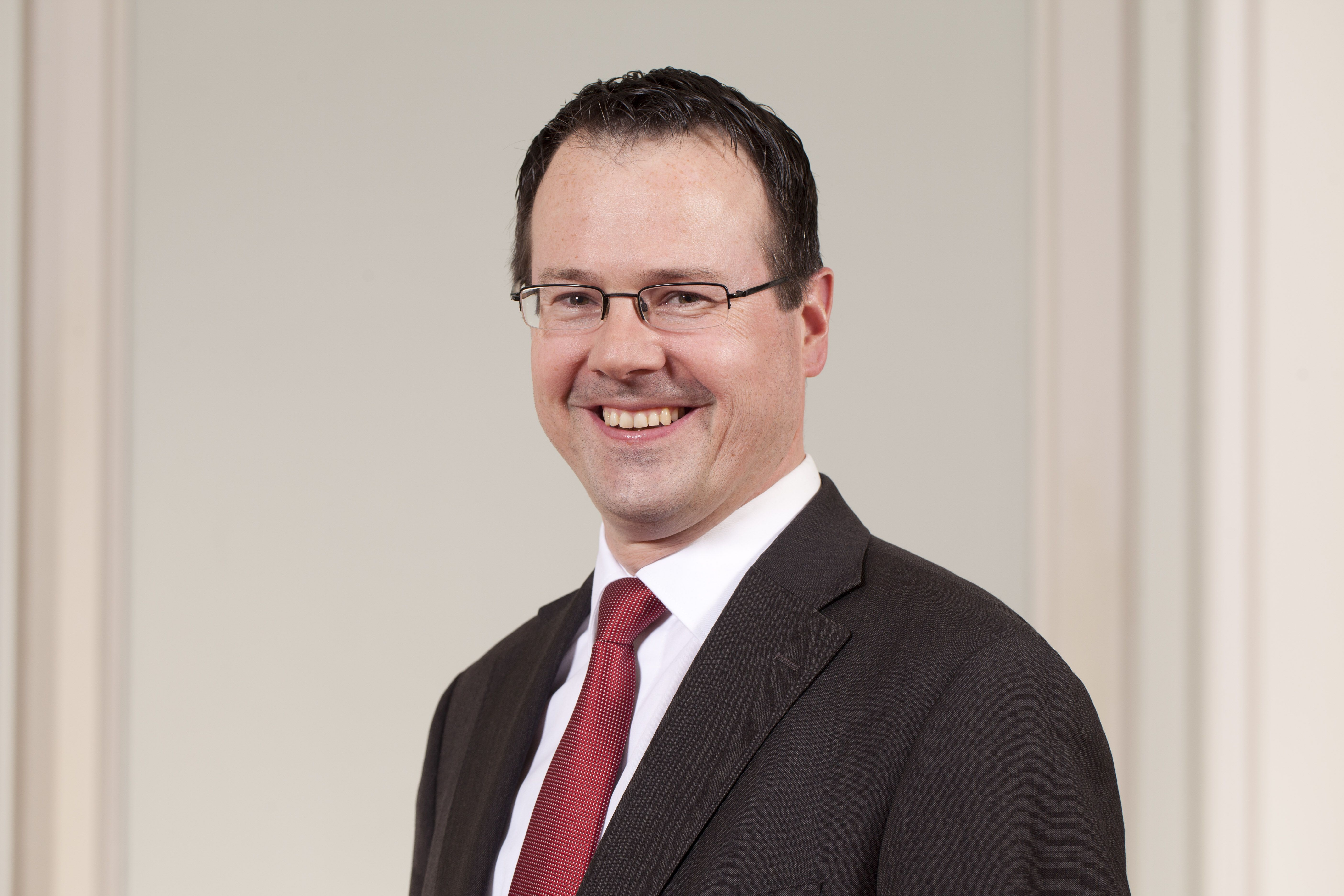 Thomas Zwiefelhofer is a minister of the government of the principality of Liechtenstein.